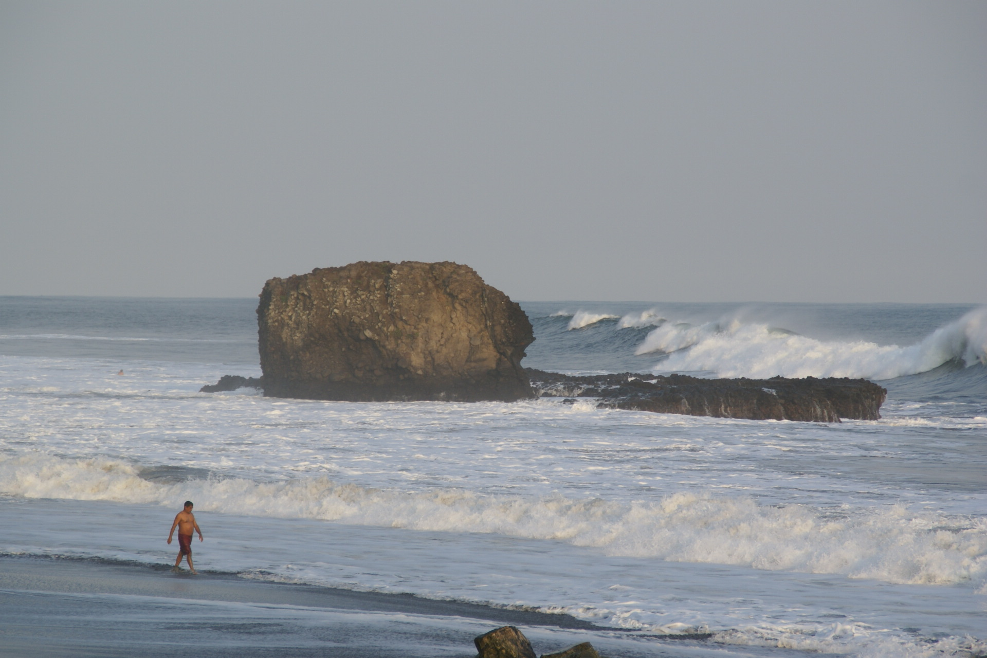 El Tunco boulder at La Libertad in El Salvador